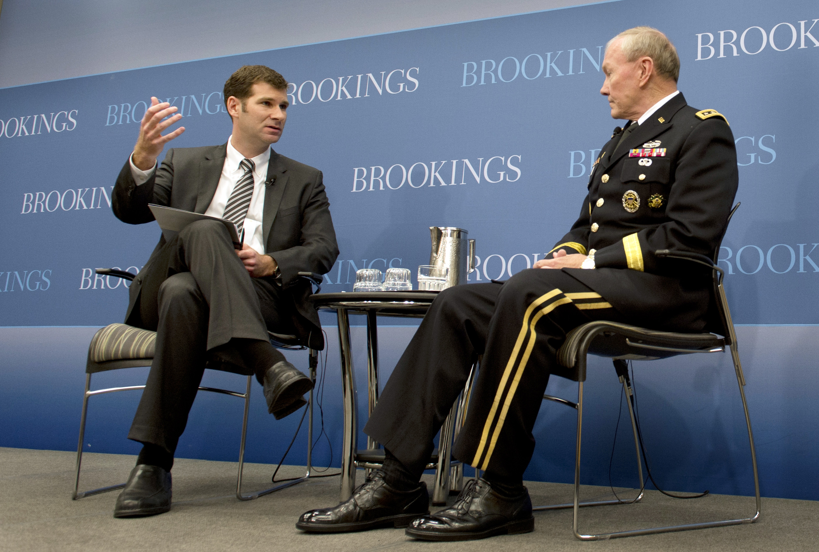 Chairman of the Joint Chiefs of Staff U.S. Army Gen. Martin E. Dempsey, right, hosts a question and answer session with Peter W. Singer, the director of the Center for 21st Century Security and Intelligence at the Brookings Institution, after delivering remarks at the center June 27, 2013, in Washington, D.C. Dempsey discussed the military's role in cyber security.